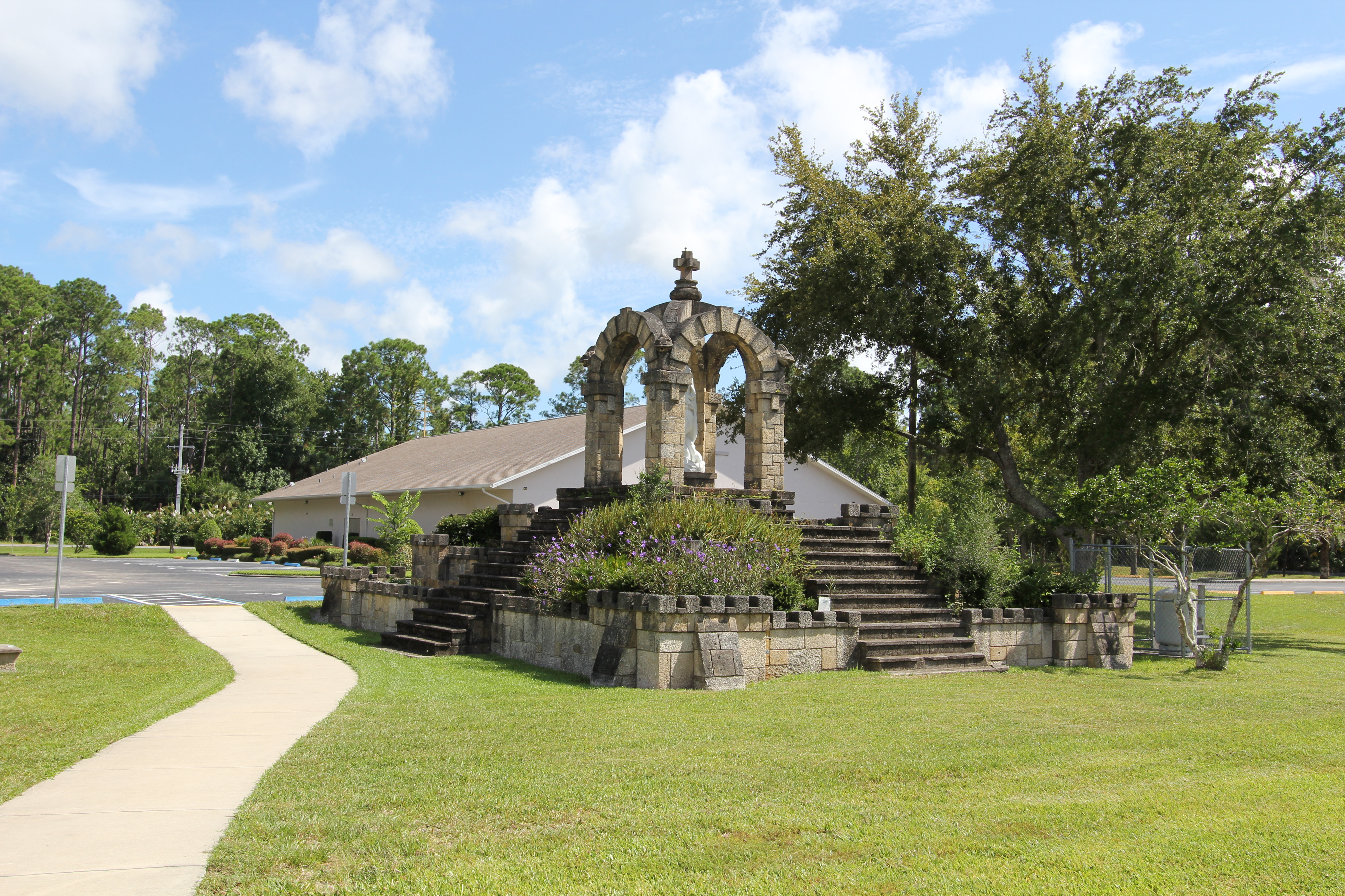 St. Mary Catholic Church (Korona, Florida) - Shrine of St. Christopher - Right Side View